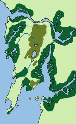 Terrain of Bombay. Lighter areas are elevated regions. Darker areas are the swampy areas.